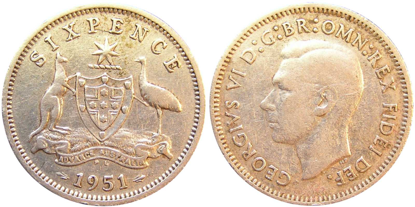 Australian 1951 six pence coin. Australian copyright only applies to coins after 1969. 1 Since no copyright applies, I am releasing this under the GFDL. It is my understanding that 2D representations of 3D designs (coins) are permissible under photography provisions of copyright.